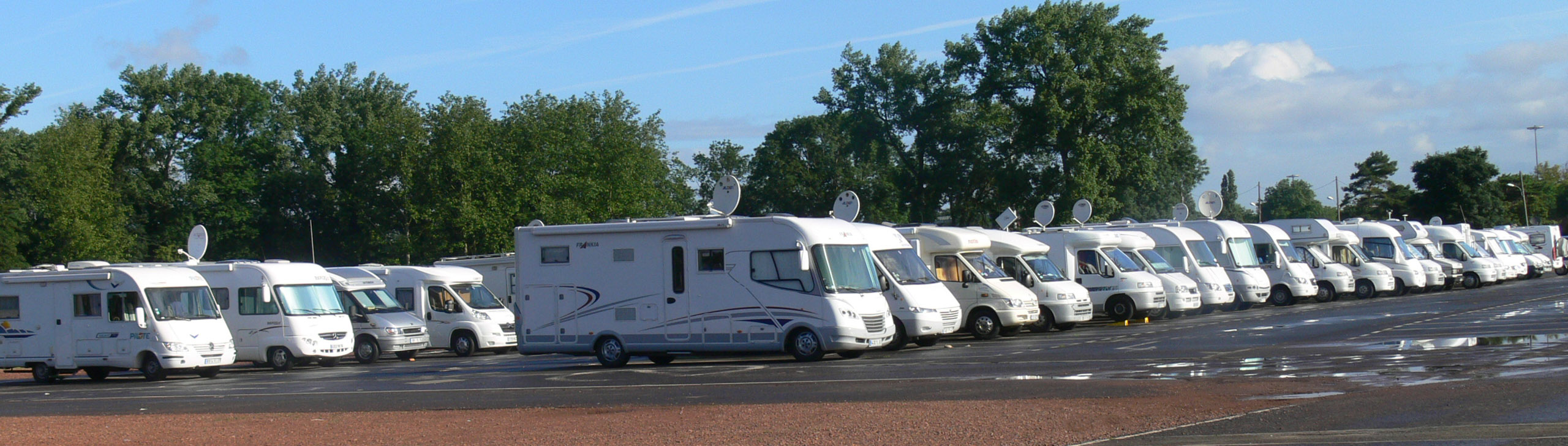 camping vehicules in Lille, north of France